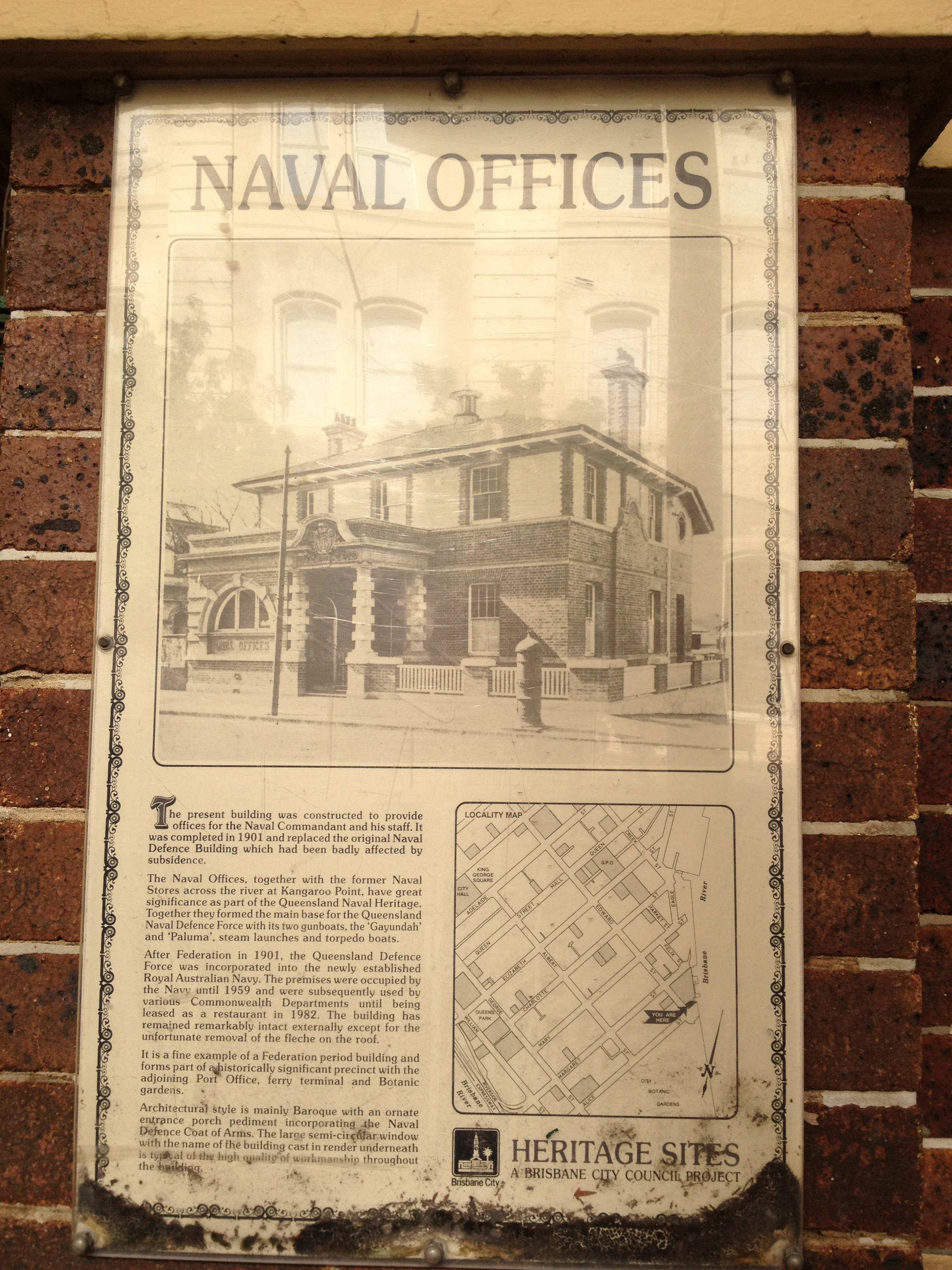 Description Naval Offices, Edward Street, Brisbane